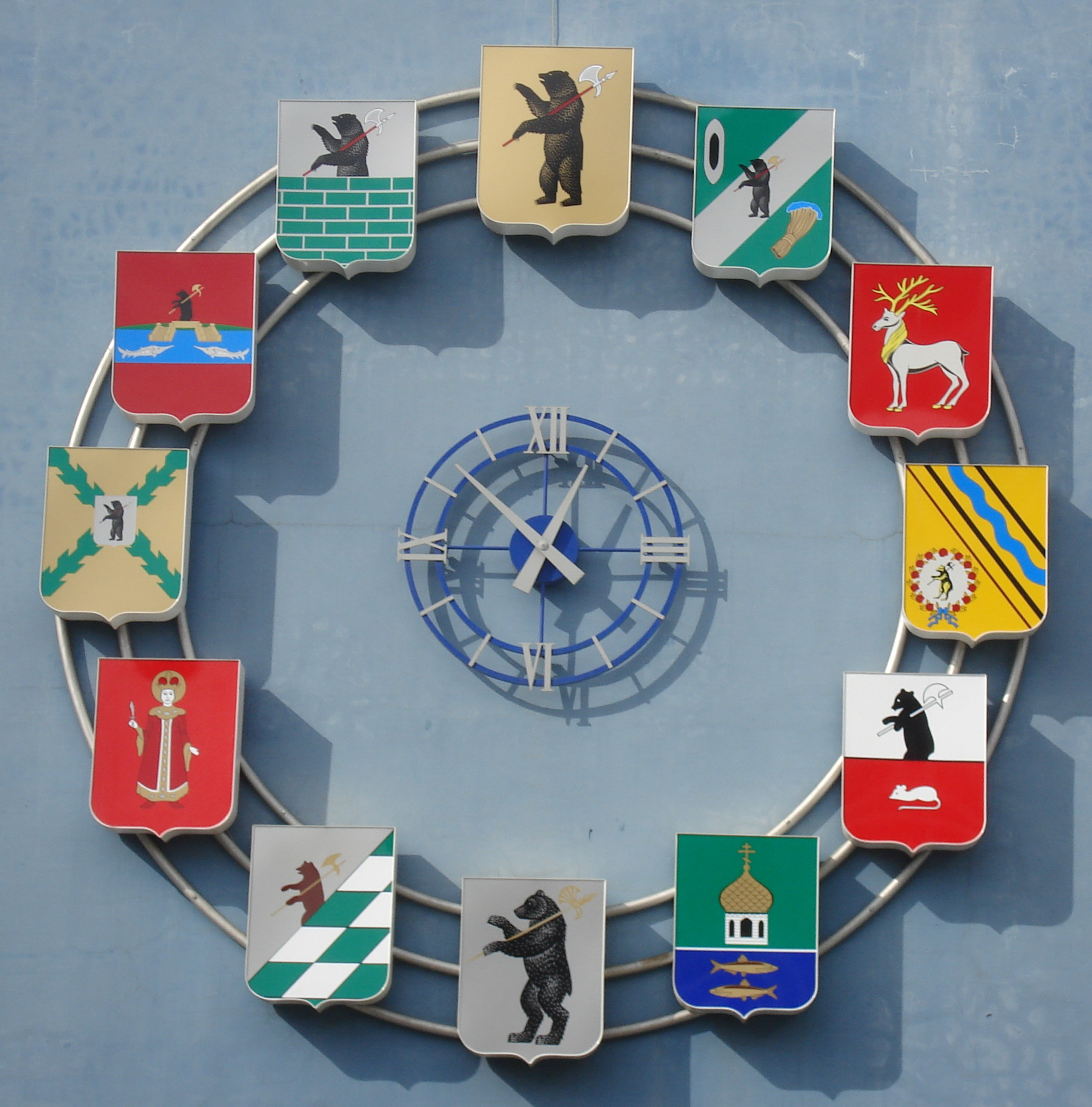 Coats of arms of cities of Yaroslavl Region